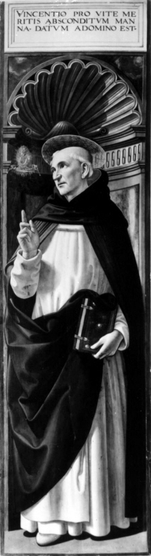 'Saint Vincent Ferrer', by Domenico Ghirlandaio, ca. 1494. The piece was part of the Tornabuoni Altarpiece. The painting was destroyed or disappeared in Berlin in May 1945, in the Friedrichshain flak tower fire. - Dimensions: 206 x 55 cm